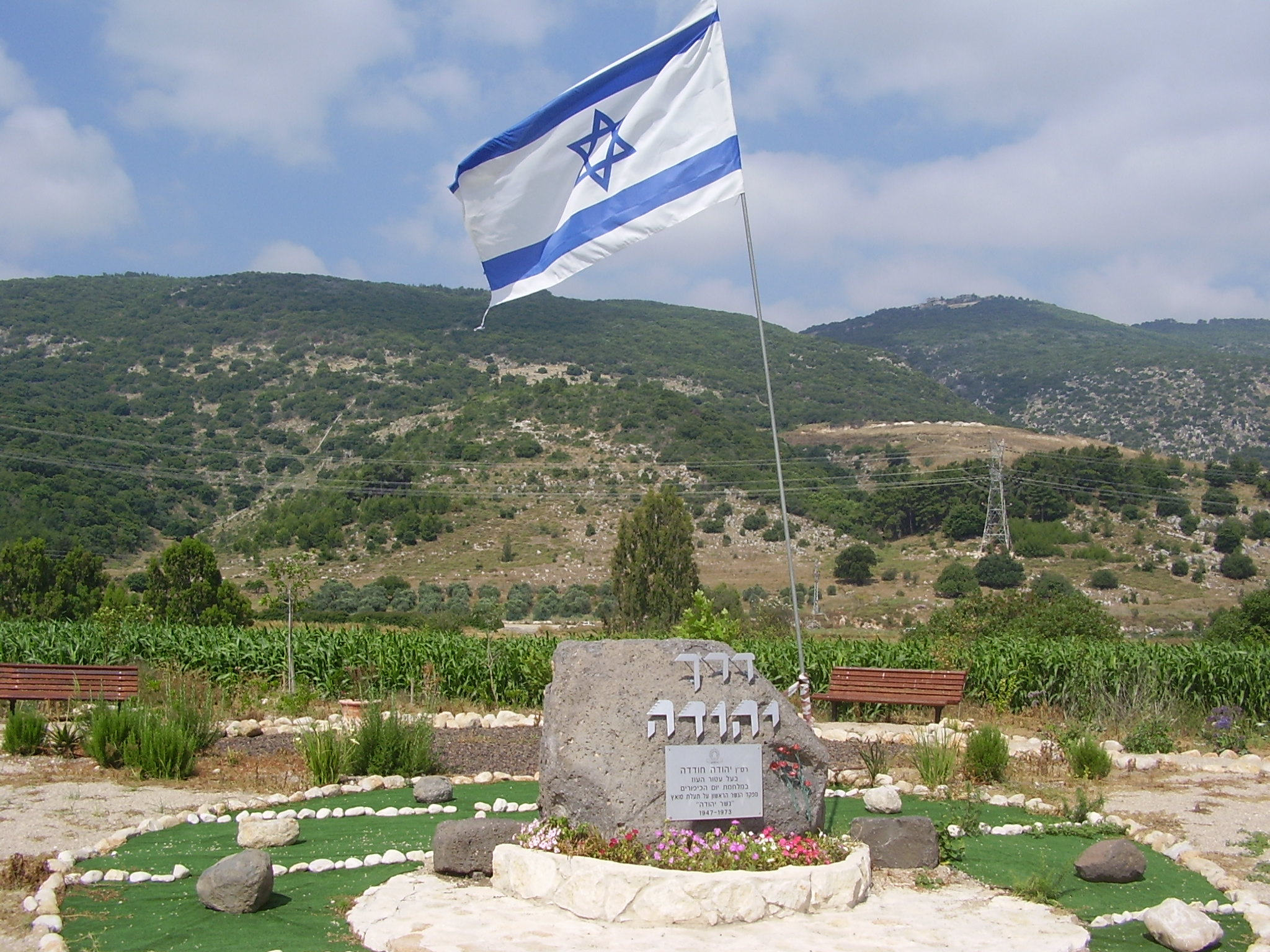 Judah Khodeda memorial in Kiryat Tiv\'on